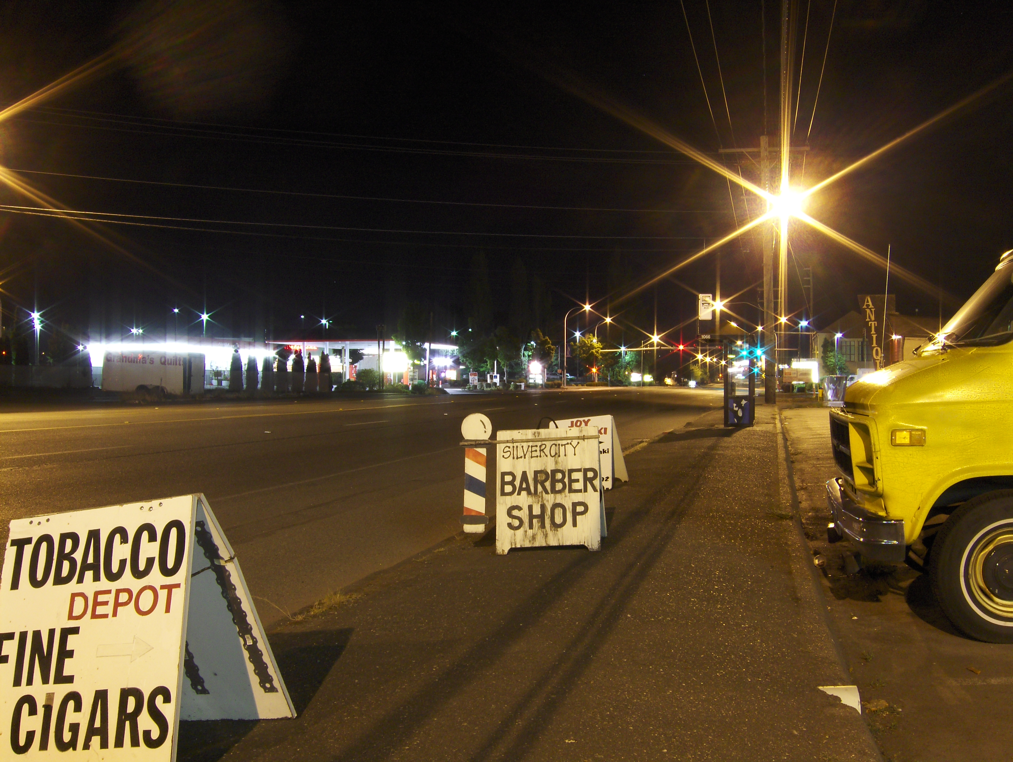 Silverdale Way at night